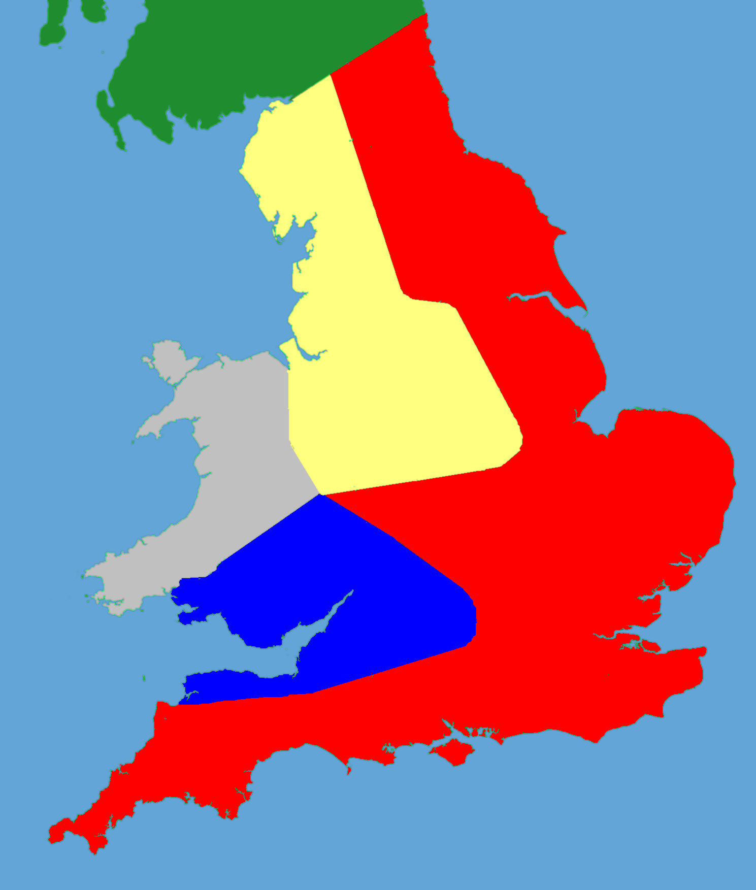 A political map of southern Britain in 1153, drawn from data in Jim Bradbury's book "Stephen and Matilda", p.180. Original file was a blank locator map for Great Britain. The idea is to superimpose Image:dot4gb.svg at the appropriate point. See Template:GBthumb for code to do this. These two images can replace any locator map posted by Lupin - see Special:Contributions/LupinBot. This is a vectorized version of Image:Gb4dot.png, with the scale changed from 200 km to 150 km/150 miles. The shoreline data come from the file gshhs_h.b from the GSHHS, and the rivers and the Irish border come from the CIA World DataBank II; both sources are in the public domain. Mercator projection. ==